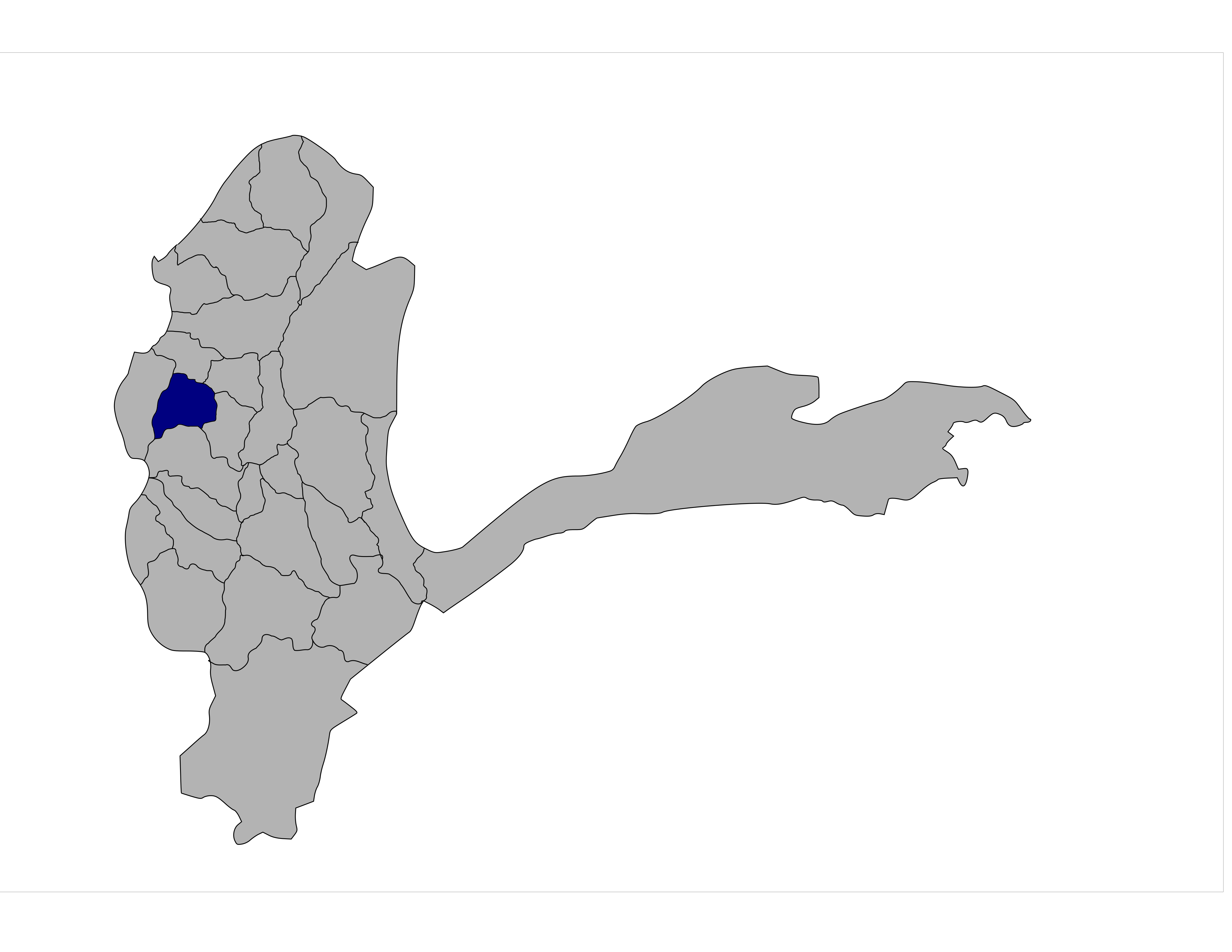 Shows the boundaries of Yaftali Sufla District, Badakhshan Province, Afghanistan.